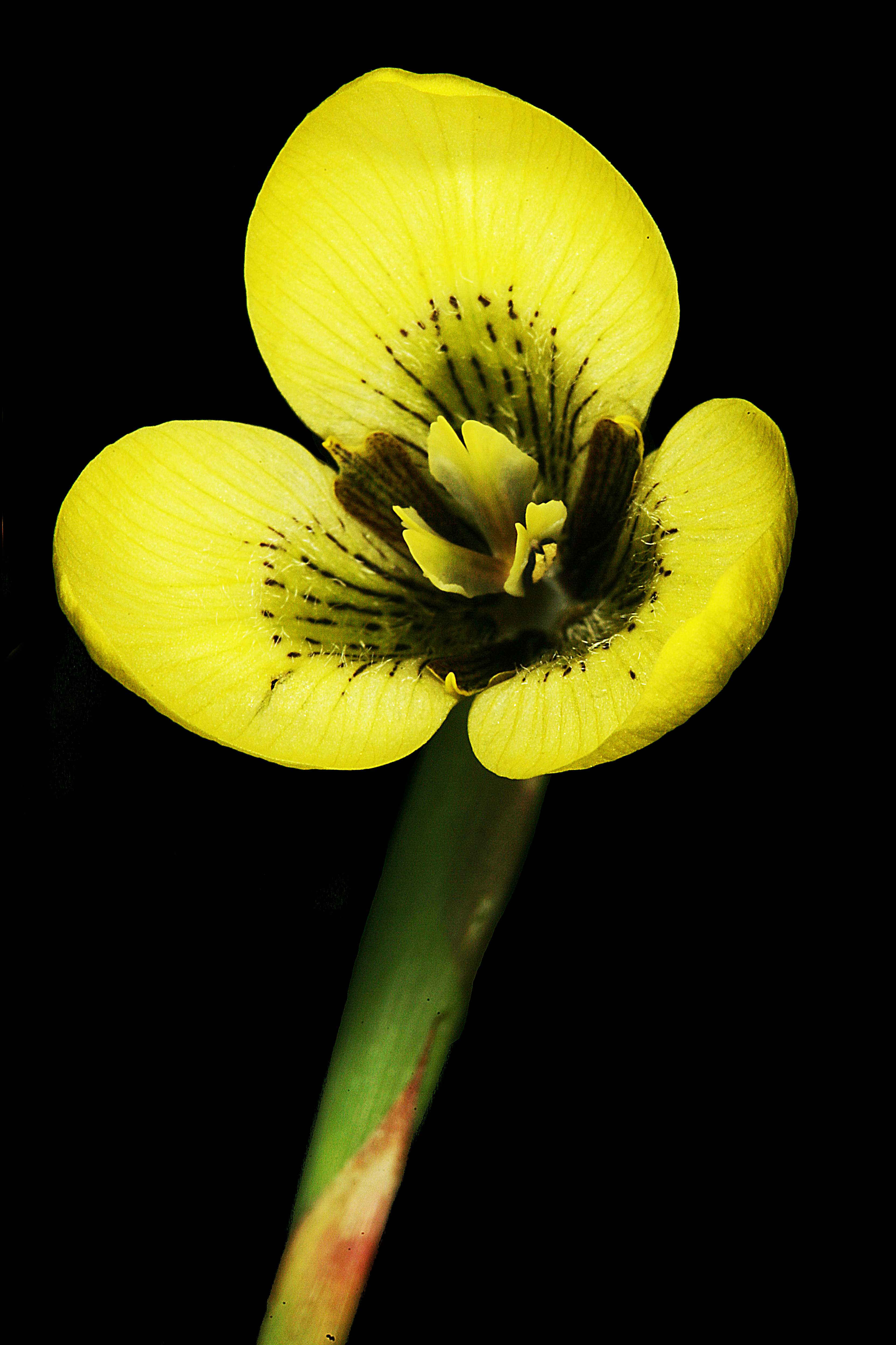 Moraea bellendenii, flower; Darling Wild Flower Show, Darling, Western Cape, South Africa